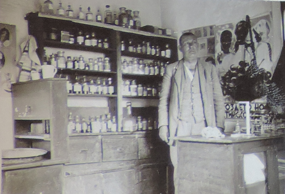 A photo album by doctors, paramedics and midwives at the Kyustendil Sanitary region in 1936. It was compiled by Dr. A. Ogoyski. Handed to His Royal Highness Simeon Knyaz Tarnovski.